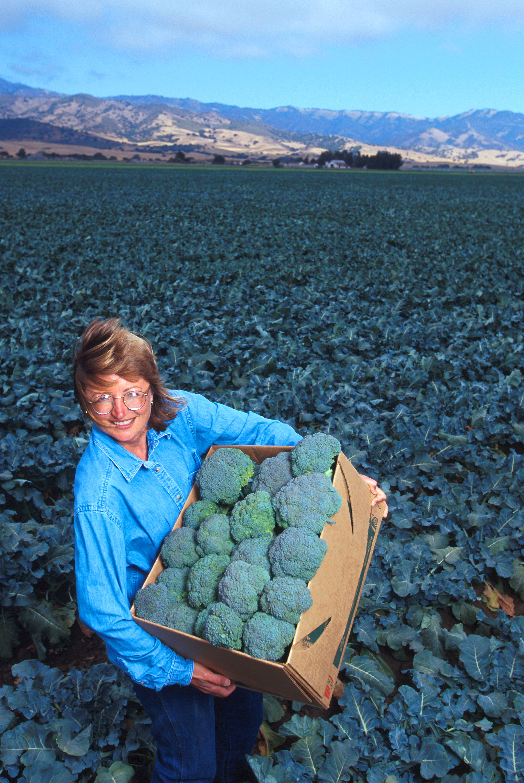 Original caption: “The interagency IR-4 program ensures the safety of so-called minor-use chemicals before they are approved for commercial agricultural production. At Salinas, California, ARS agronomist Sharon Benzen displays test-plot-grown broccoli that will be used to determine pesticide residue levels.”